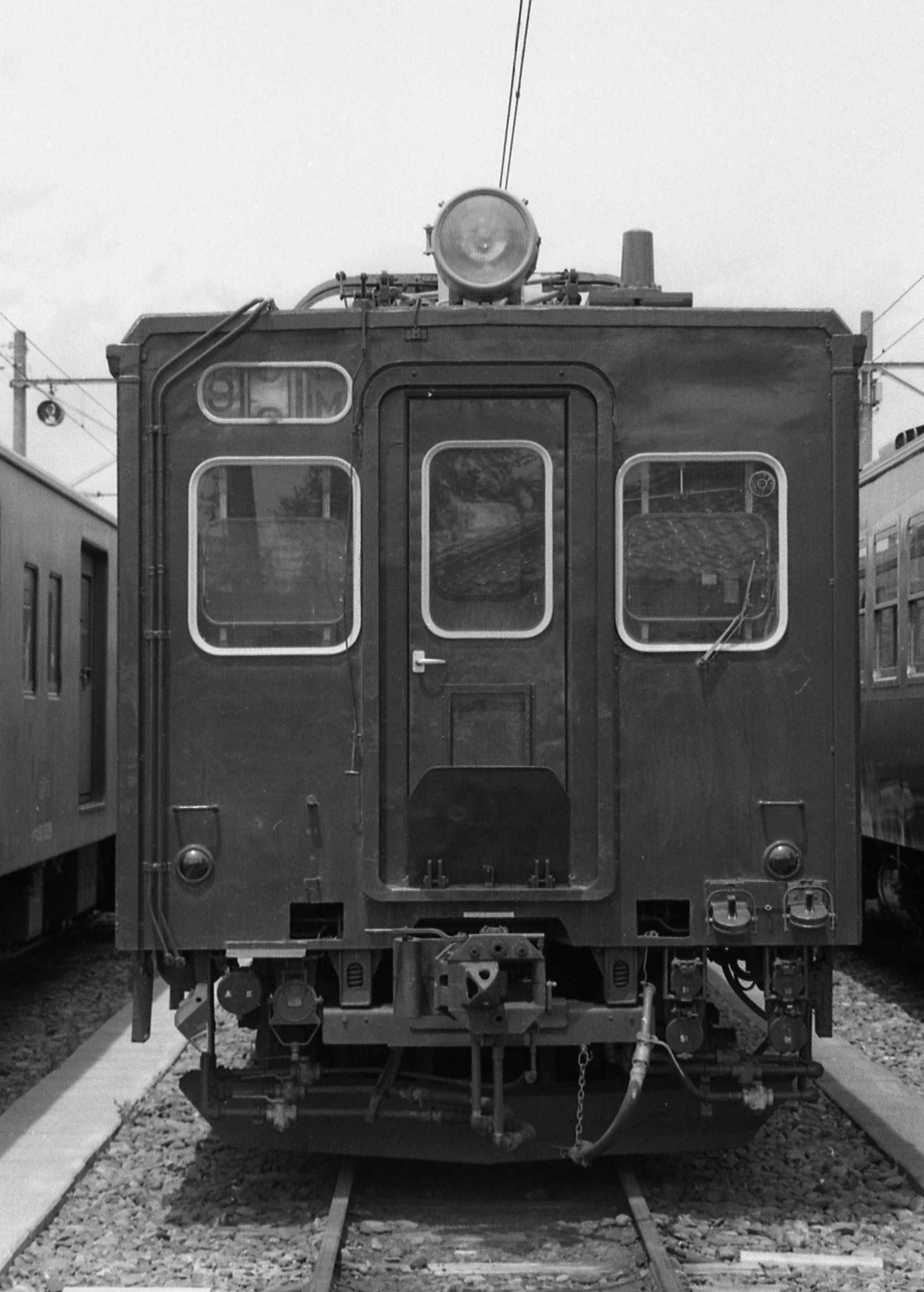 JR East Kumoya 90800 at Matsumoto